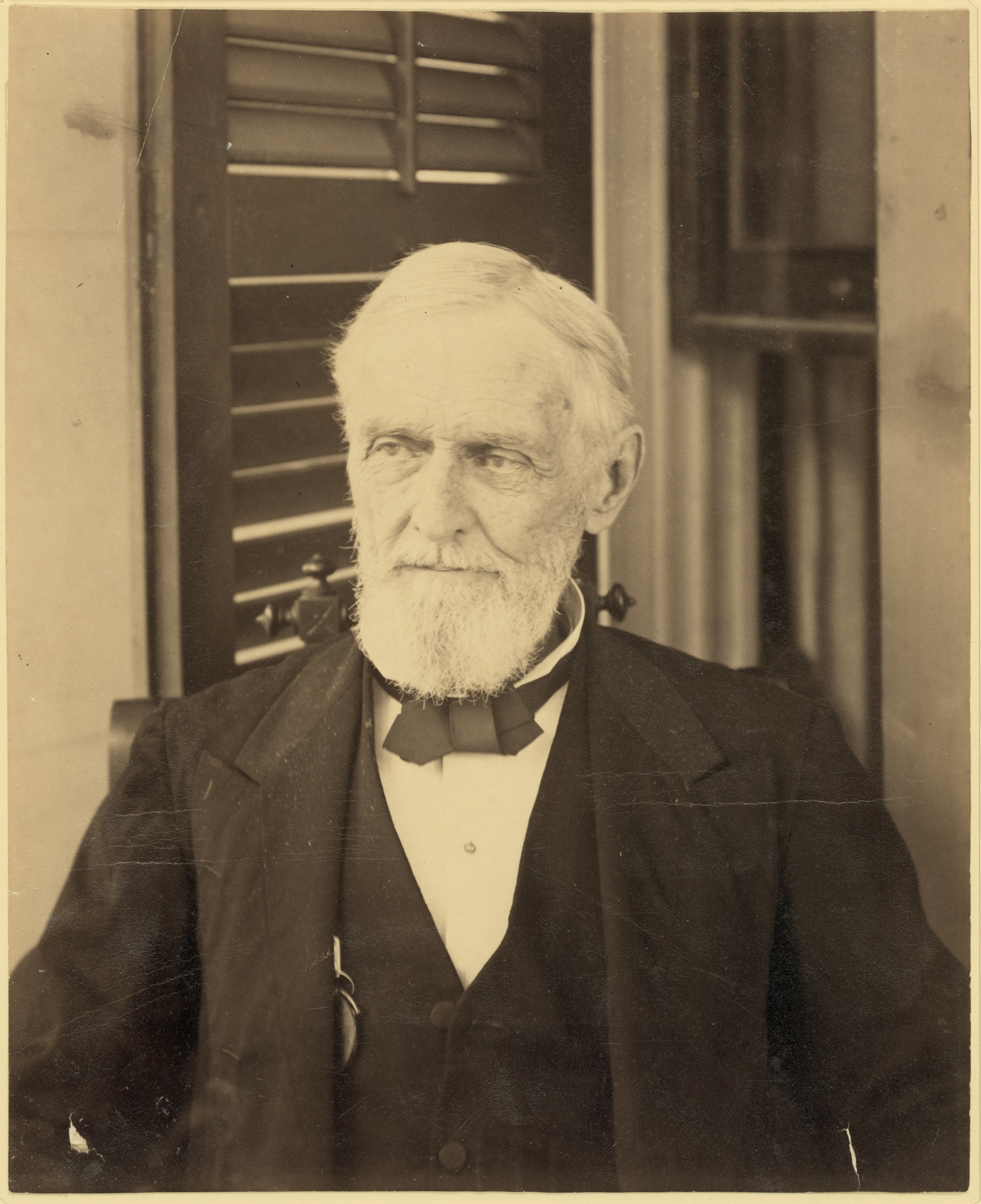 Title: Jefferson Davis, seated, facing front, during portrait session at Davis' home Beauvoir, near Biloxi, Mississippi Abstract/medium: 1 photographic print.